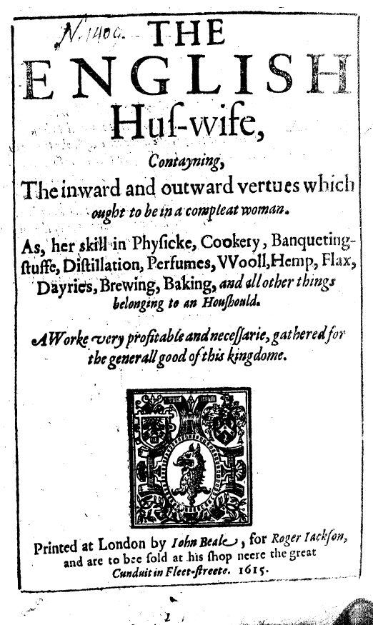 Title page of The English Hus-wife, attributed to Gervase Markham; published by Roger Jackson, 1615